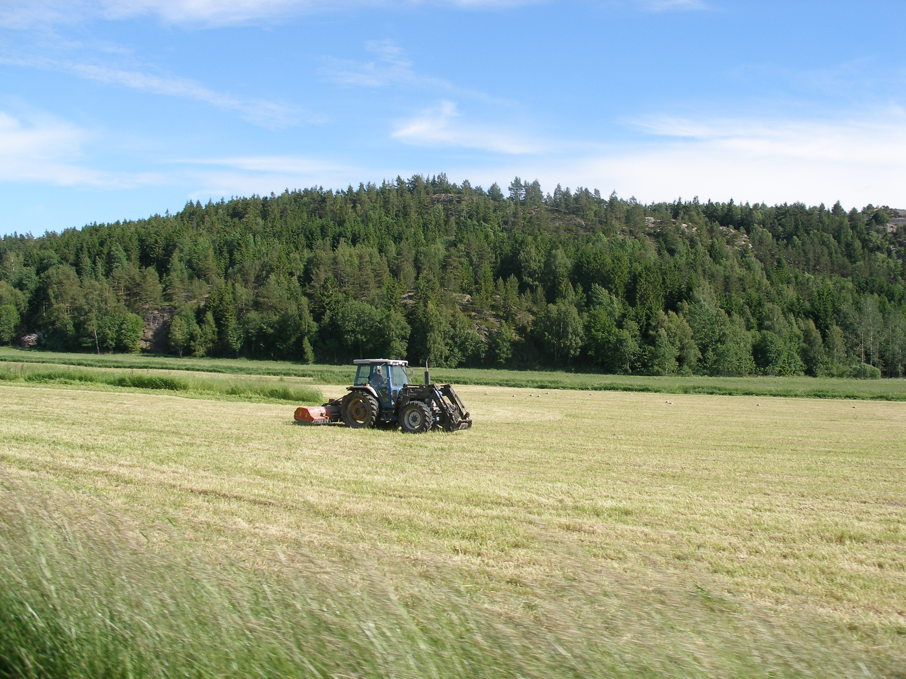 Ford tractor with a Trima FEL, seen on the way from Oslo to Göteborg just before Pingle, Sweden.